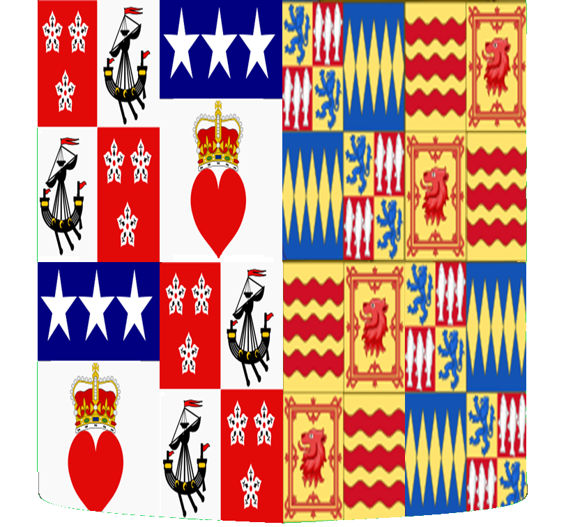 The arms of Elizabeth, Duchess of Hamilton, being the arms of The Duke of Hamilton impaled with the arms of The Duke of Northumberland